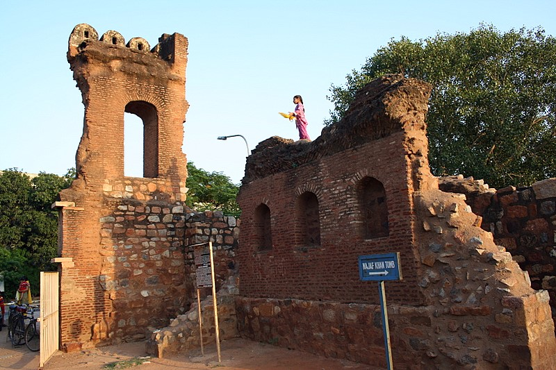 Enclosure wall with Tomb of Najaf Khan Mirza Najaf Khan (1723– April 26, 1782) was a Persian adventurer in the court of Mughal emperor Shah Alam II. He had royal lineage, having been a Safavi prince, when that dynasty was deposed by Nader Shah in 1736. He came to India around 1740 and may even have come a year earlier with the Afsharids. His sister married into the family of the Nawab of Awadh. He also held the title of Deputy Wazir of Awadh. He served during the Battle of Buxar and his main contribution in history was as the highest commander of the Mughal army from 1772 till his death in April 1782